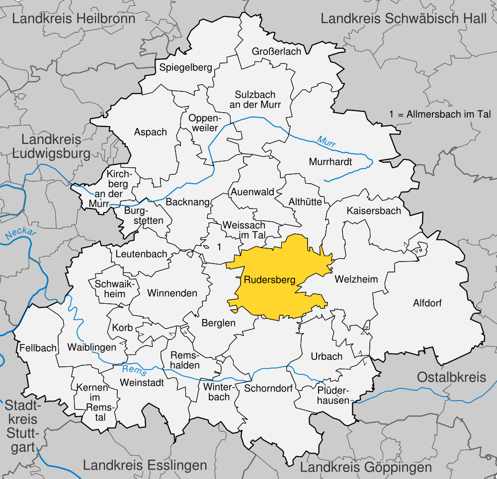 position of Rudersberg within the Rems-Murr-Kreis, Baden-Württemberg, Germany